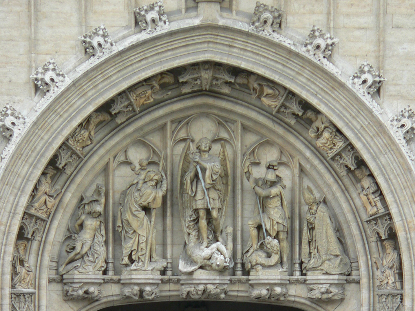 Brussels Grand Place, detail of sculptures